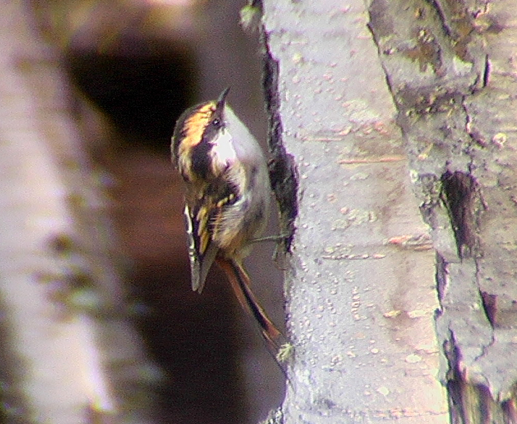 Thorn-tailed Rayodita Aphrastura spinicauda near Ushuaia, Argentina.